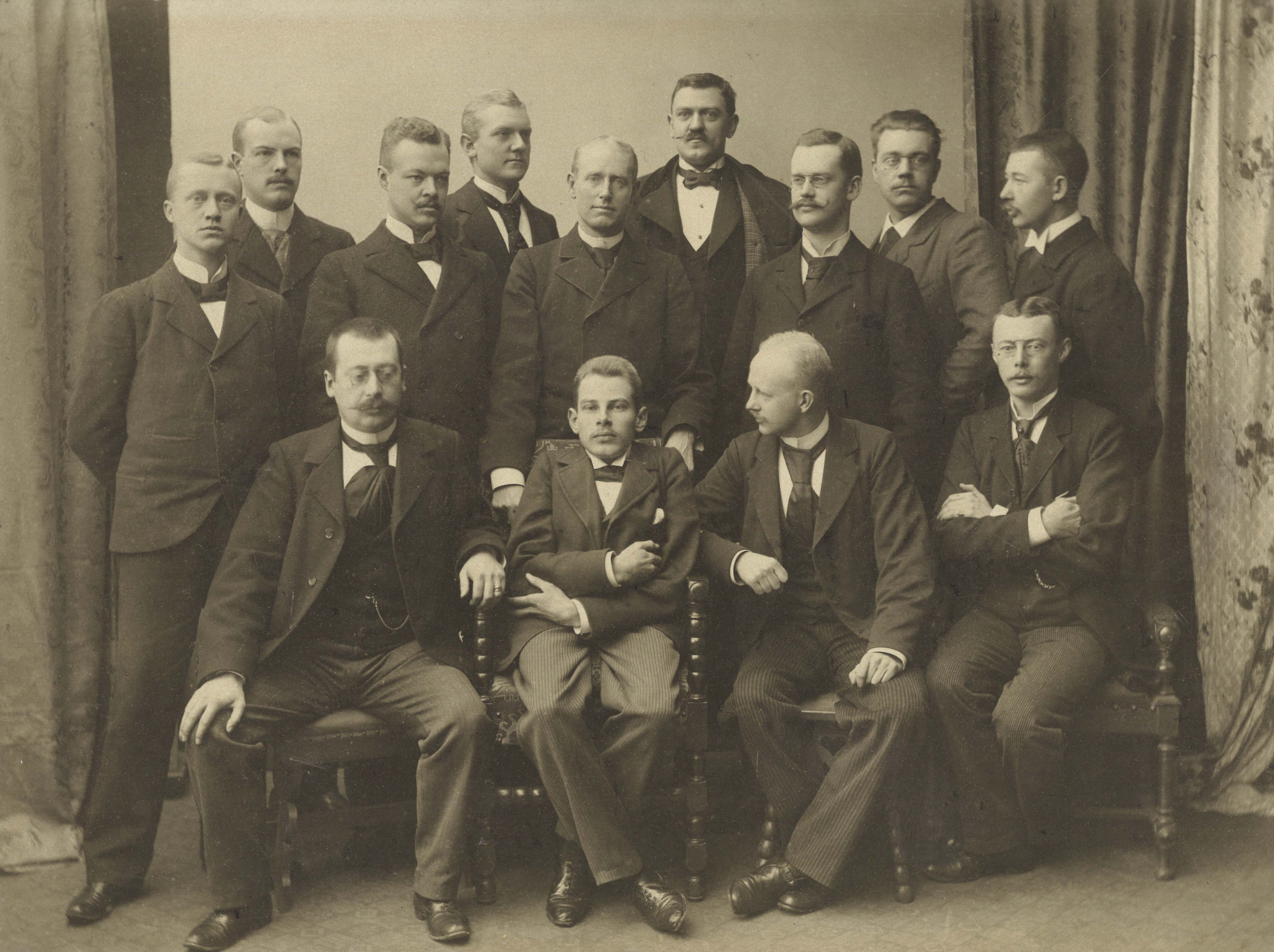 The committee behind the Lundakarnevalen (the students' carnival in Lund) of 1896. For details about the names of the people depicted, see Swedish description.